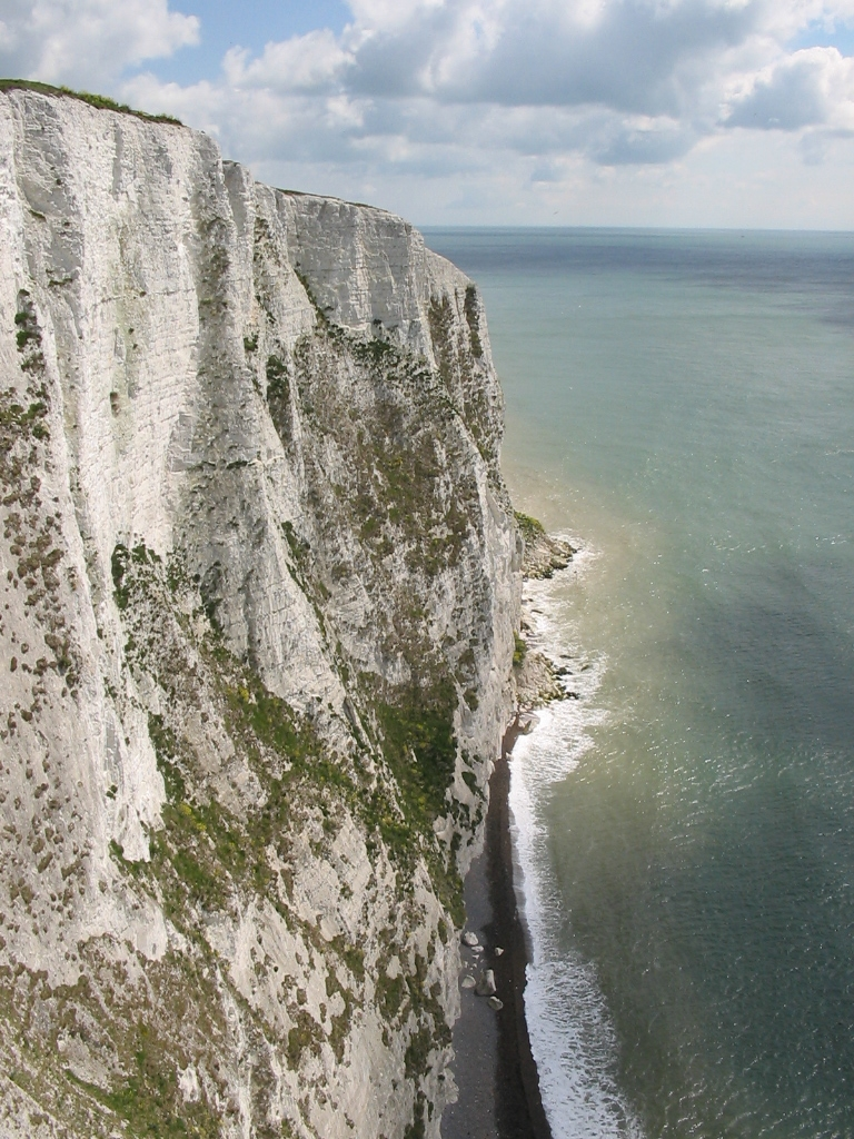 I took this picture myself on 14/05/05.